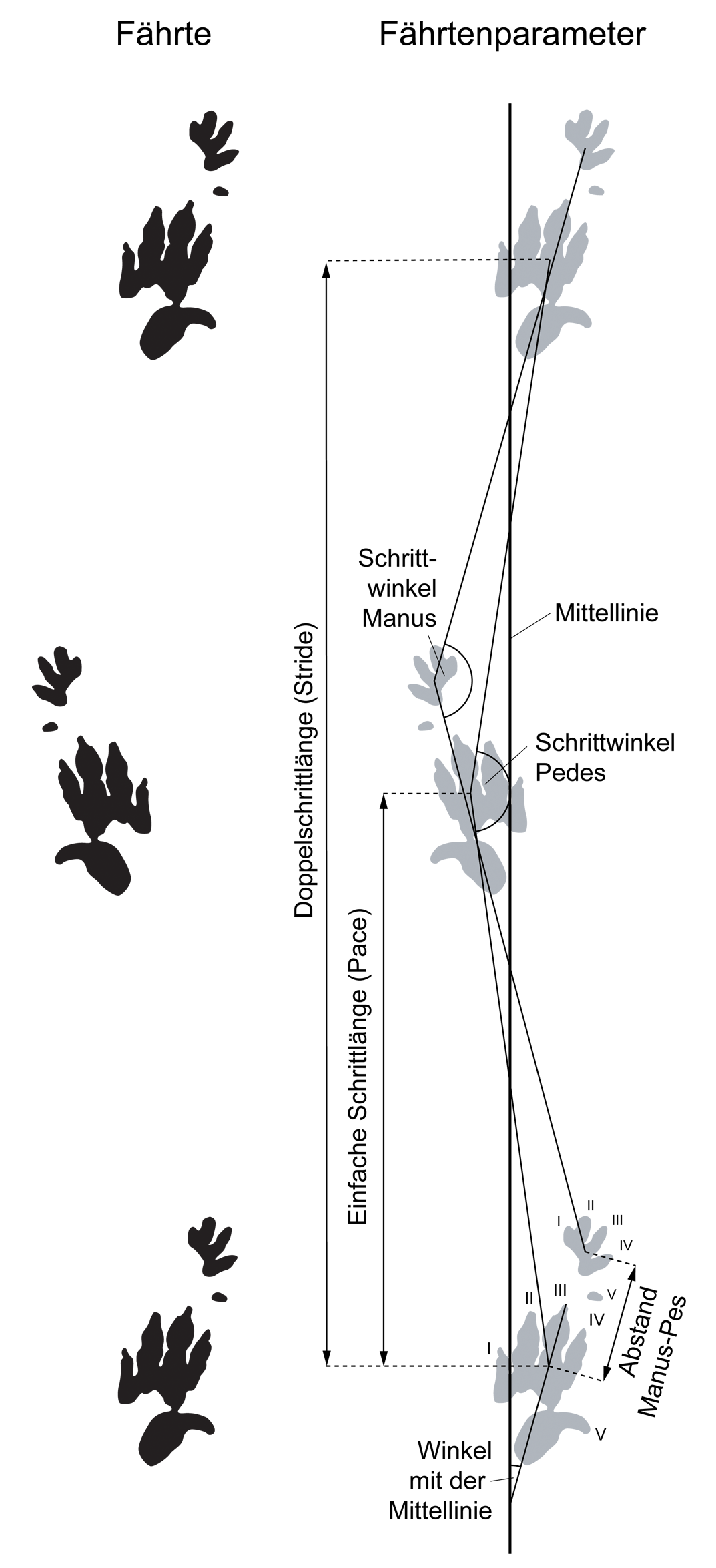 Parameters defining a tetrapod track, exemplified by Chirotherium. For most of the measures the base of the third digit serves as reference point. Figure is based on Krause & Haubold (2008)[1]